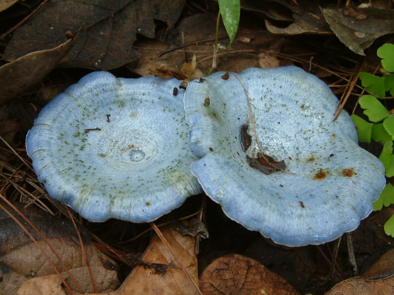 A couple of fresh Lactarius indigo sporocarps, Altavista, Guatemala City, 1600 m above sea level